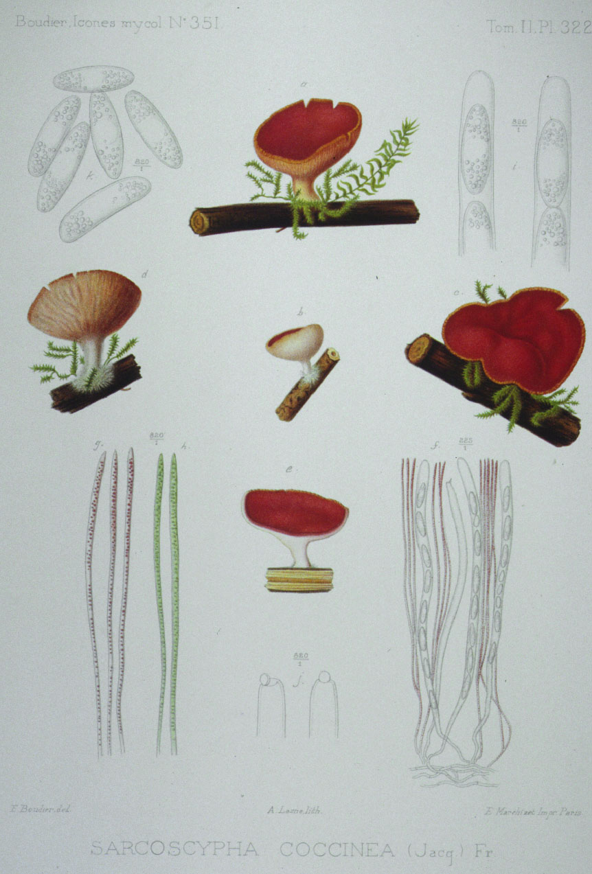 The cup fungus Sarcoscypha coccinea (Scop.) Lambotte. (a), (c), (e) fruit bodies; (b), (d) view of whitish tomentose (hairy & matted) surface and fuzzy hairs at base of stem; (g), (h) Paraphyses containing pigment granules; (i) ascus tips with spores; (k) Spores showing polar distribution of small oil droplets (f) asci and paraphyses, cellular components of the hymenium; (j) ascus tips showing operculum